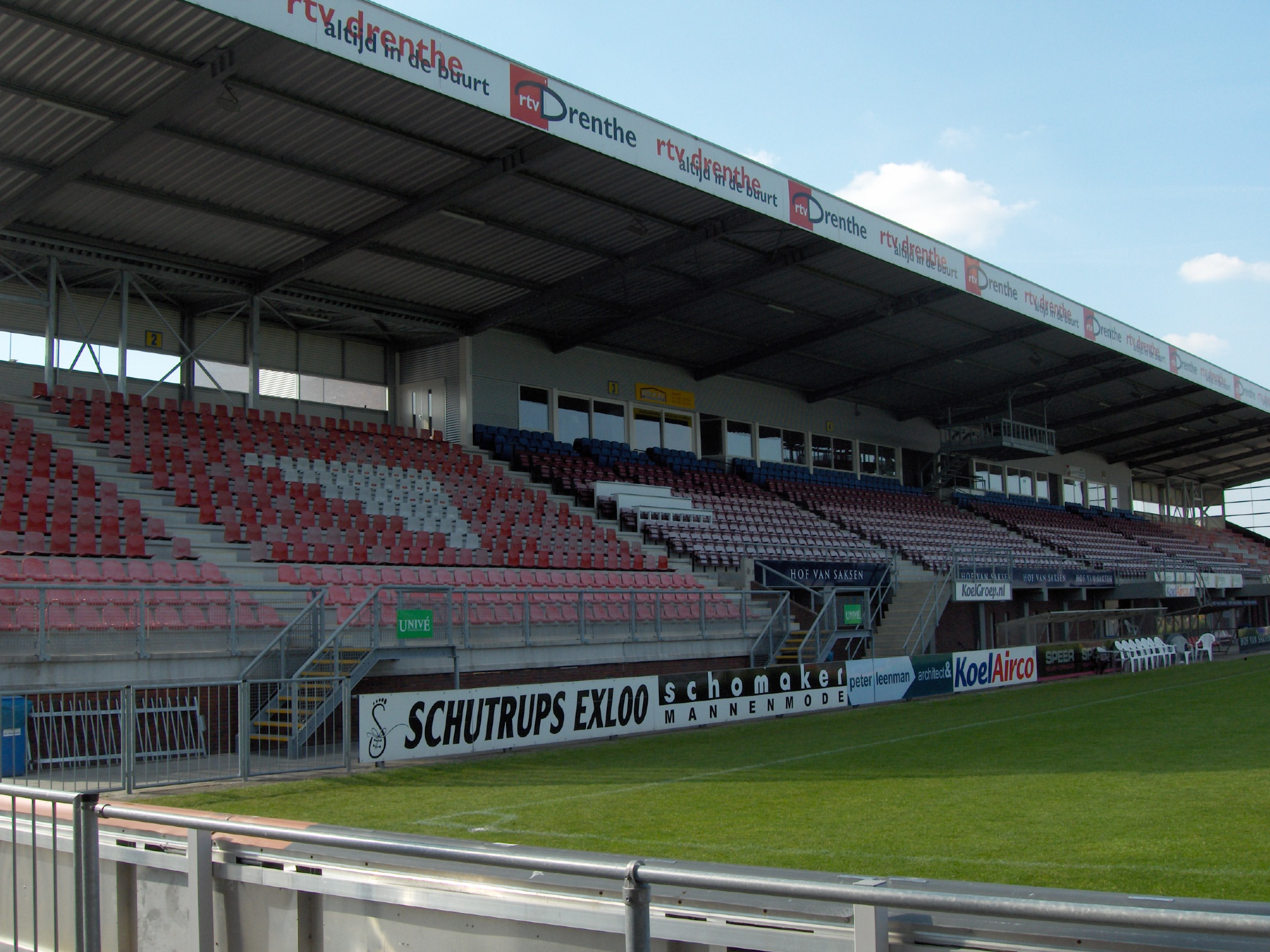 Univé Stadion Emmen Hoofdtribune